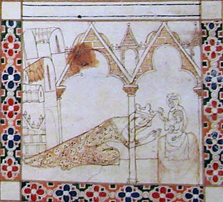 Holy Mary heals Queen Beatriz of great illness